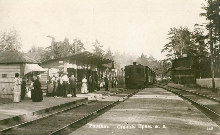 Railway station Razliv in pre-revolutionary card